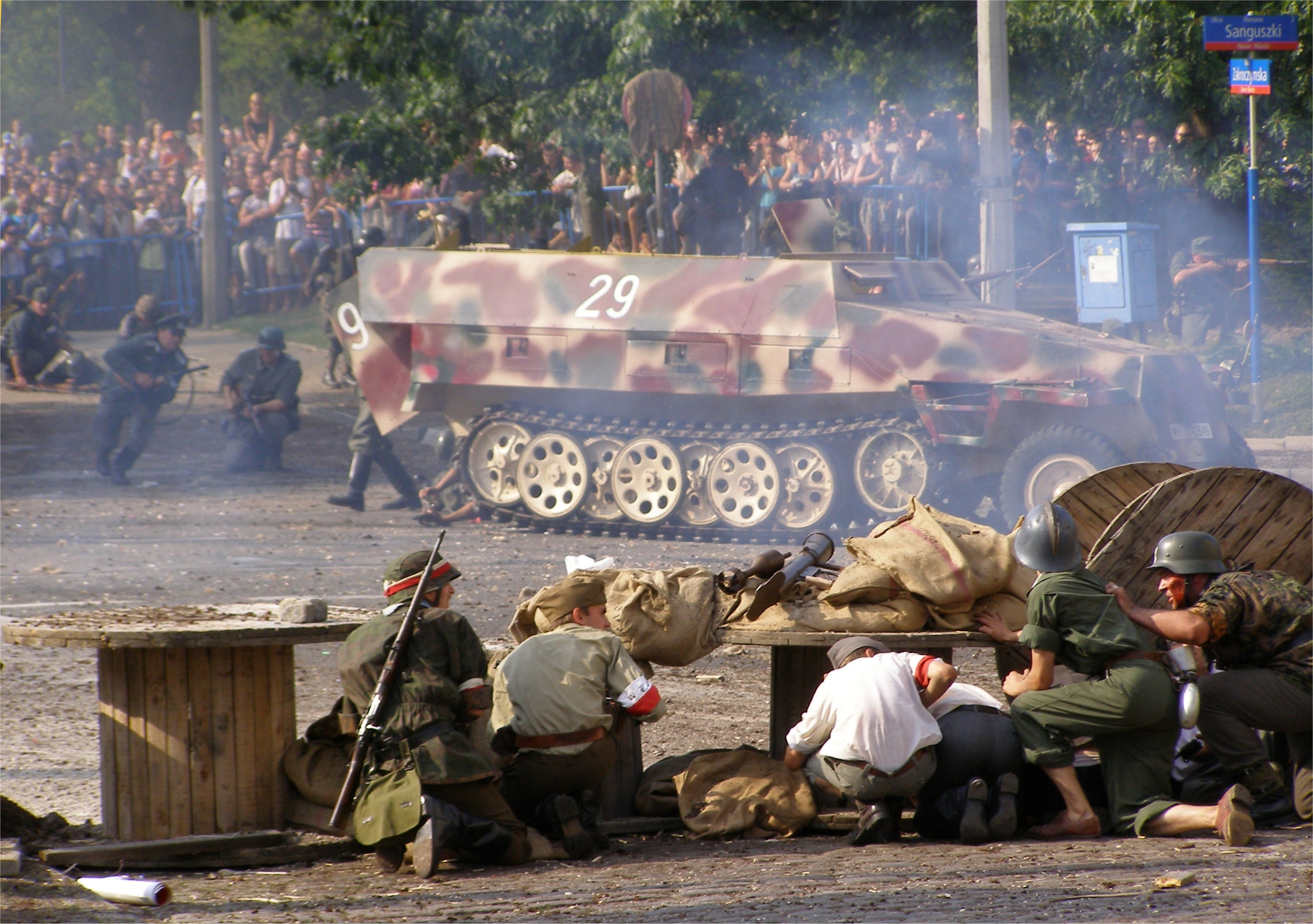 Staging of fights during the 1944 Warsaw Uprising at the State Mint (corner of Sanguszki & Zakroczymska street). The armored fighting vehicle is a German SdKfz 251.